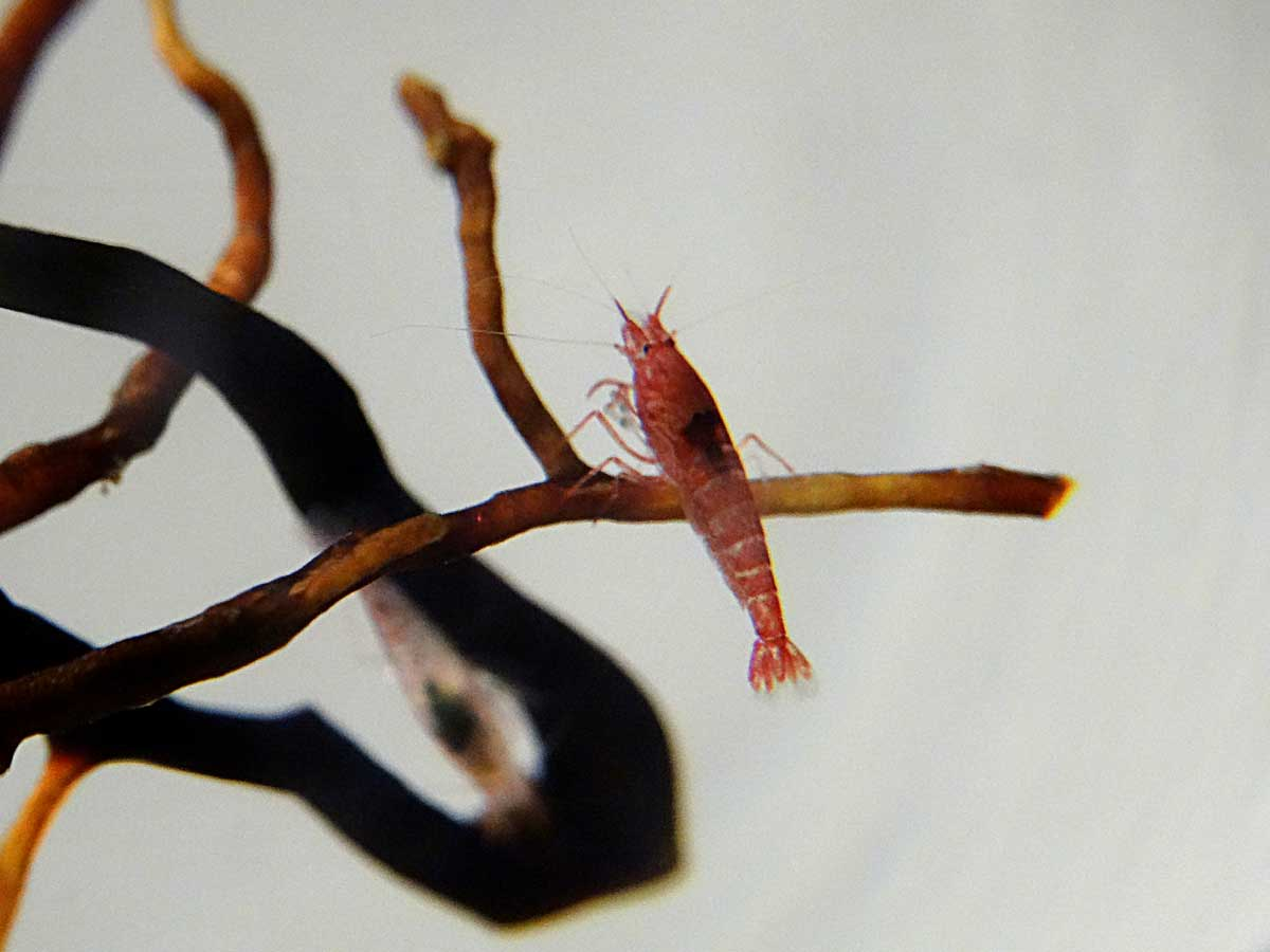 Halocaridina Rubra (also ʻōpaeʻula, which means "red shrimp") is a tiny shrimp from Hawaii. They are often sold as pets in mini aquariums because they are hardy and easy to care for.